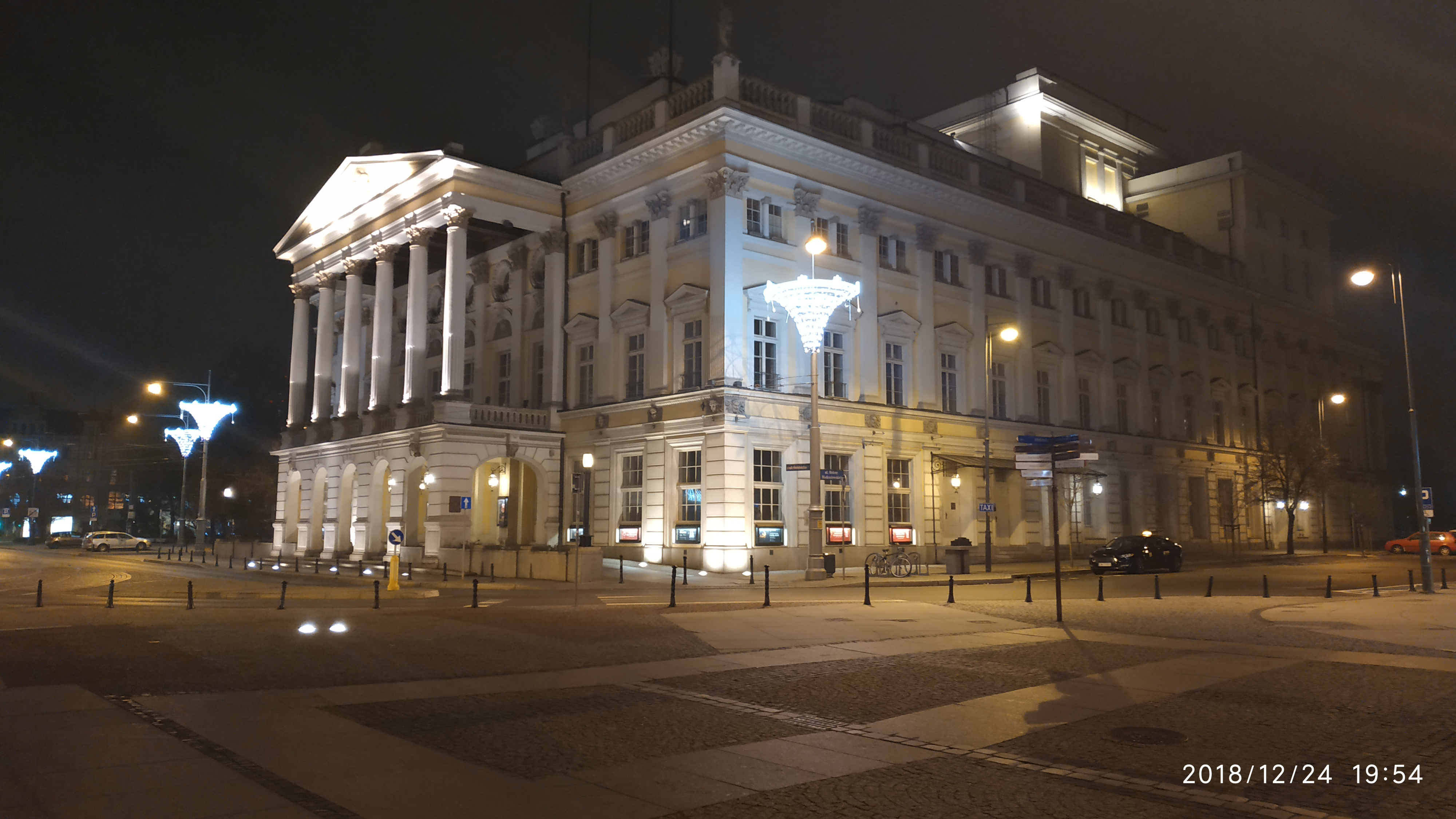 Wrocław Opera